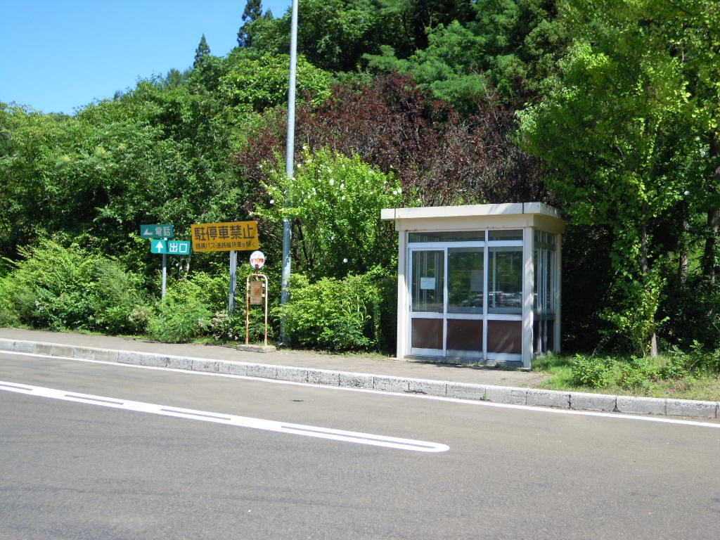 Hanawa Bus Stop on the Tohoku Expressway in Kazuno City, Akita Prefecture, Japan